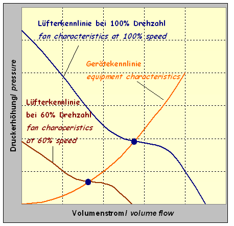 Modification of the fan characteristics and of fan the operating point for the rotational speed reduction. Example: Axial fan with the maximum (100%) and reduced (60%) speed. The 60% fan characteristics was calculated from the 100% curve using the fan laws.